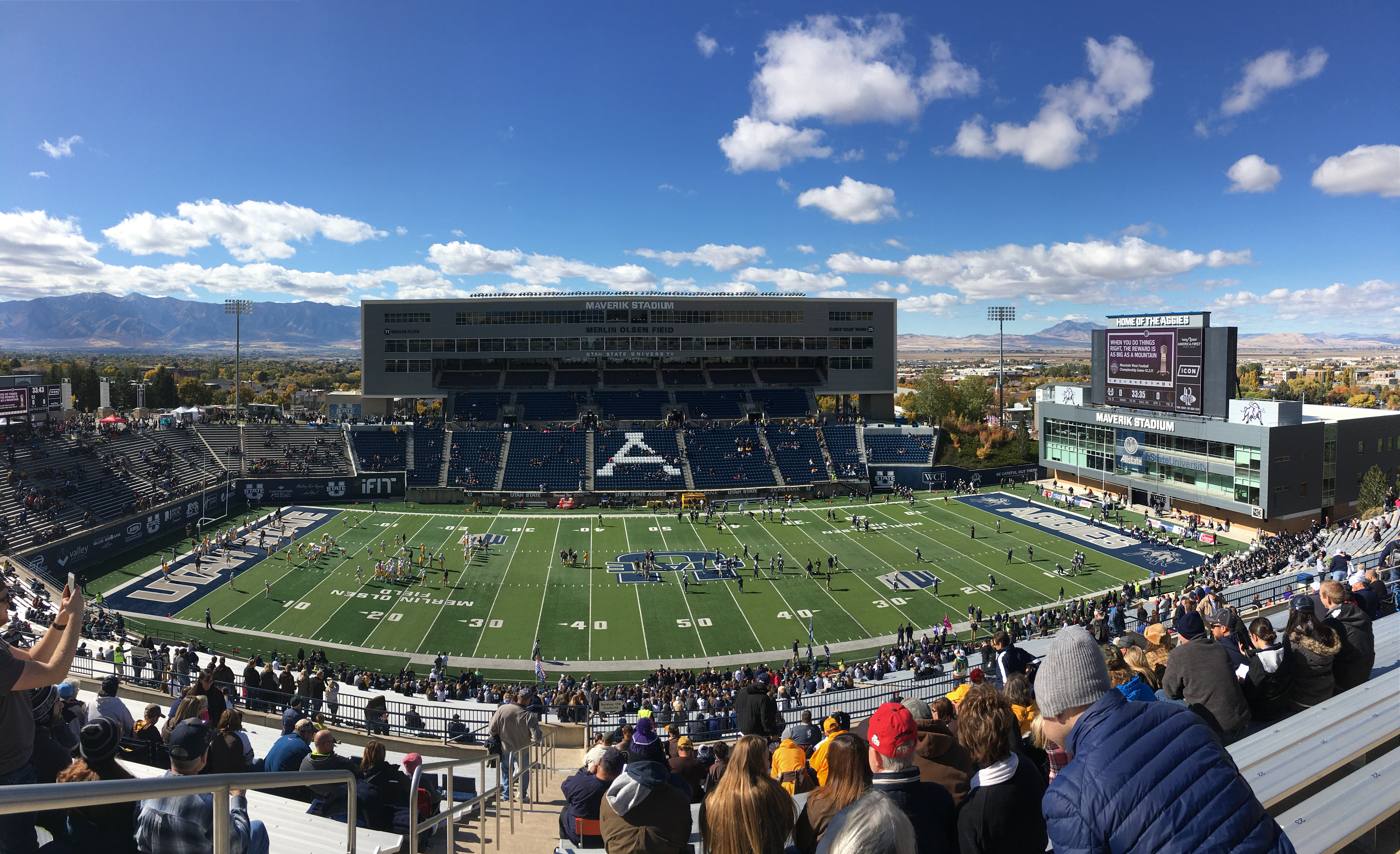 33 minutes prior to kickoff of the 2017 homecoming game between the University of Wyoming and Utah State.